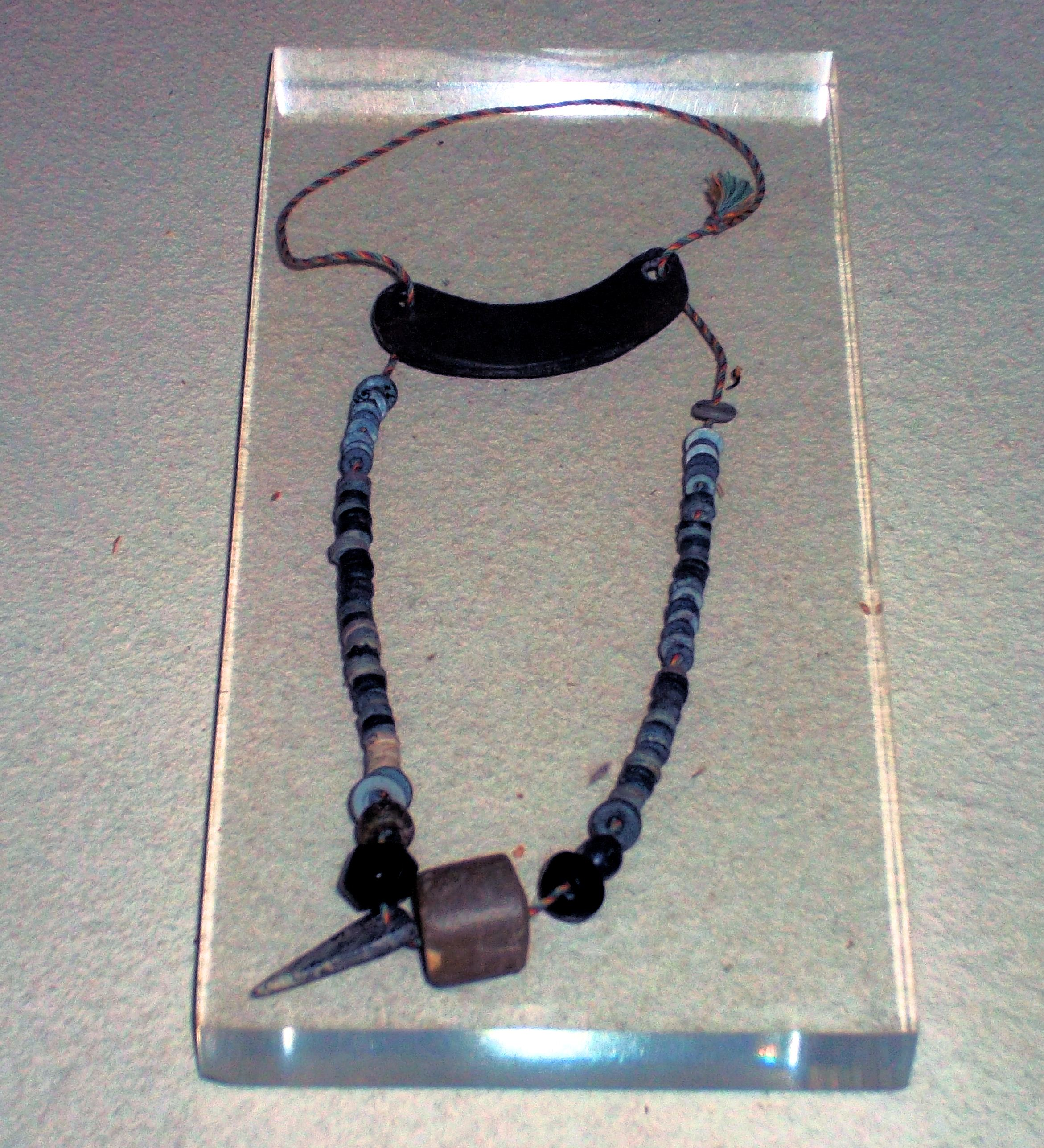 Bronze age necklace including ceramic collarpiece and beads, found among grave goods at a dolmen in Marvão, Portugal (3rd millennium BCE).